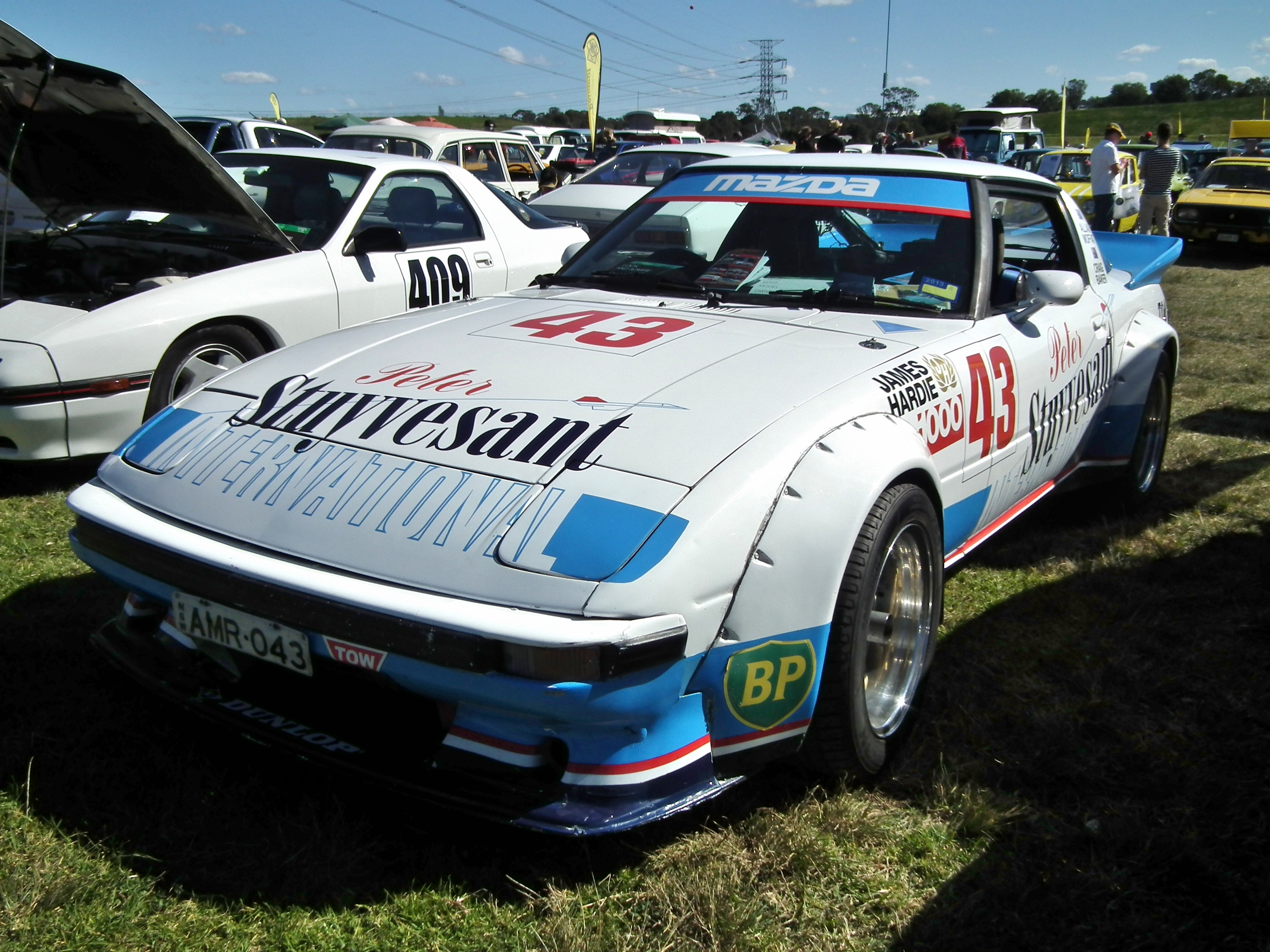 1982 Mazda RX7 series II coupe - Group C replica. Tribute to the car driven by Allan Moffat and Yoshimi Katayama in the James Hardie 1000 at Bathurst in 1982. Taken at the 2013 Shannon's Eastern Creek Classic display day, held at Sydney Motorsport Park.